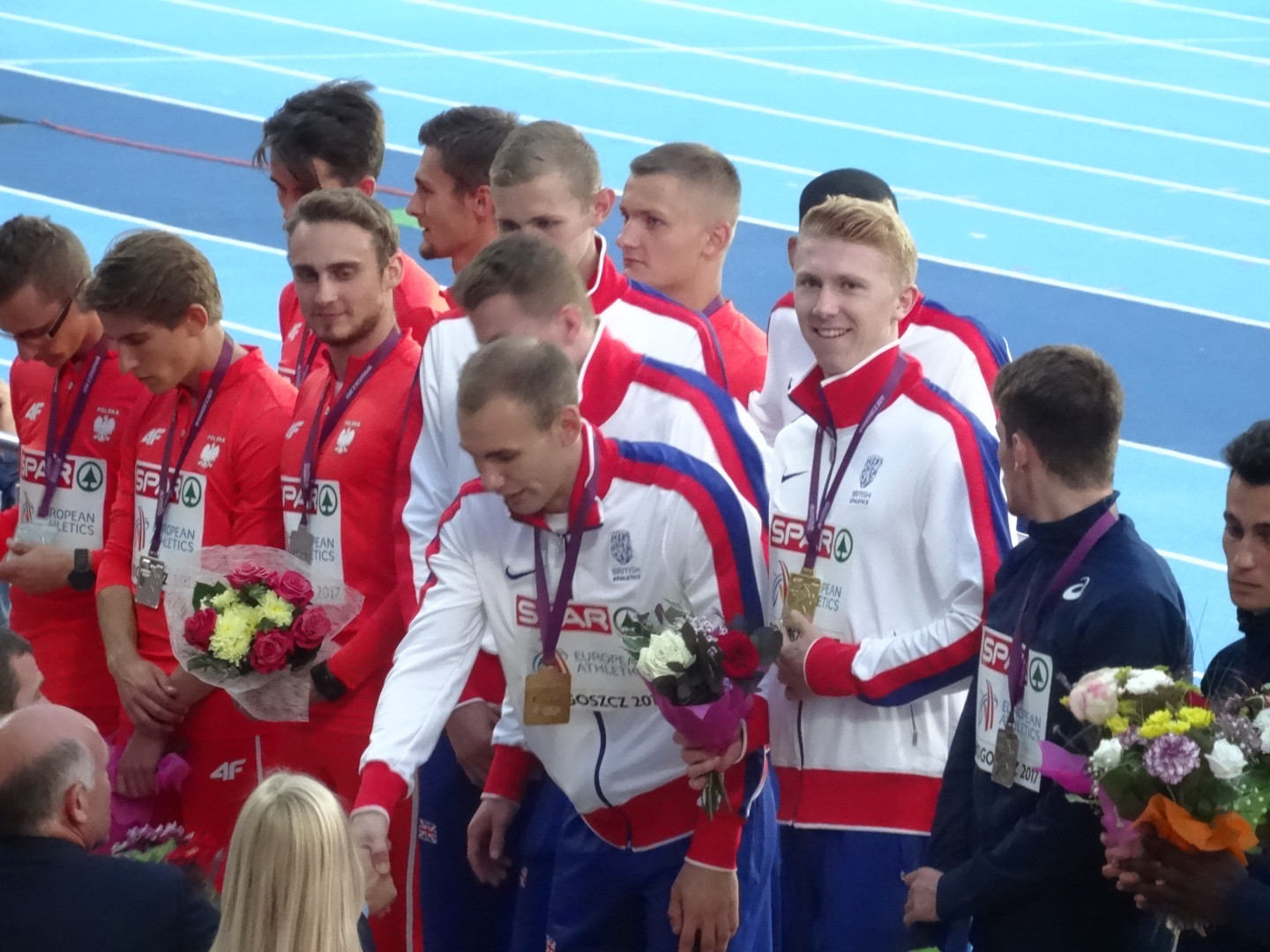 2017 European Athletics U23 Championships, 4x400m relay men medal ceremony